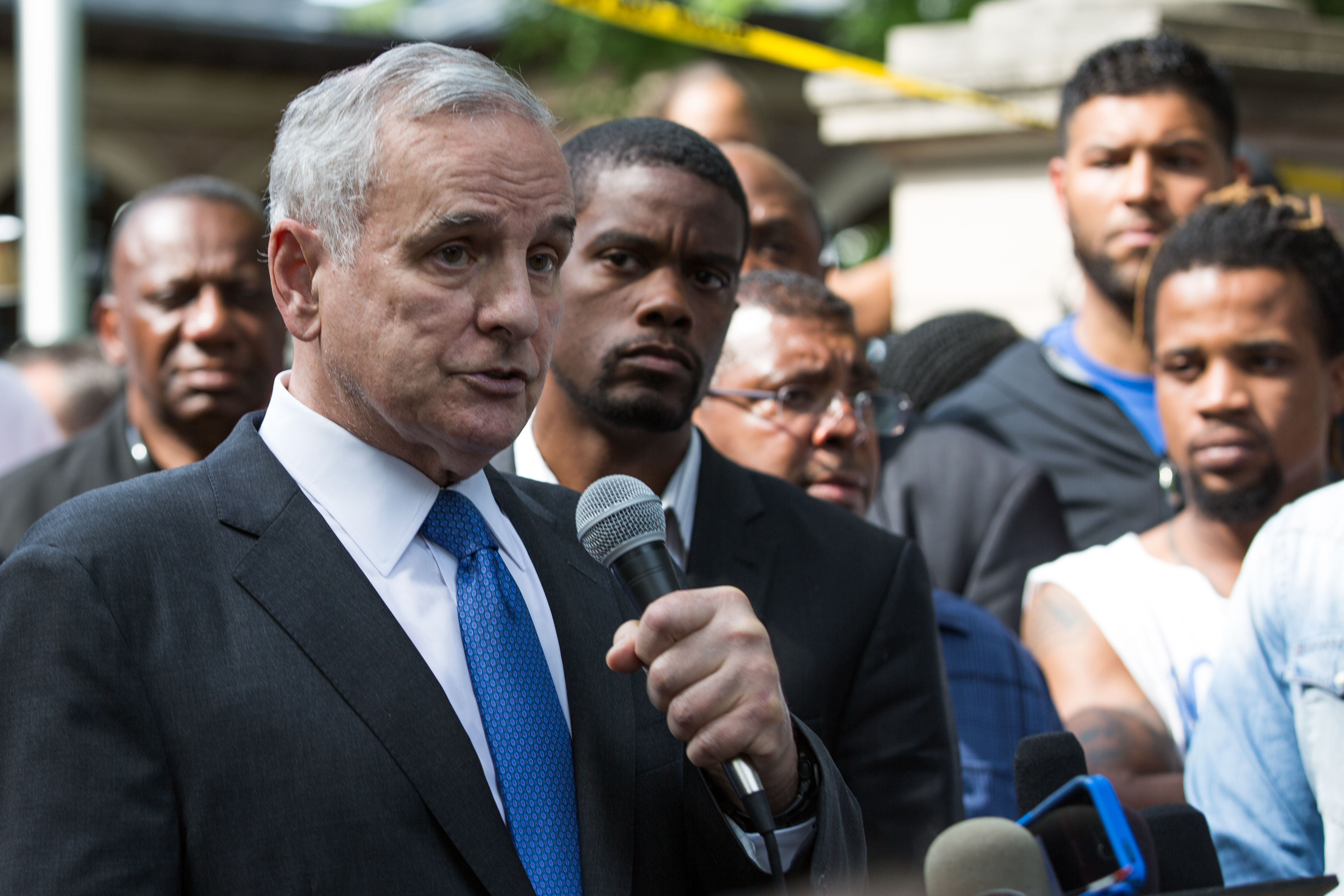 Rally in memorial of Philando Castile, outside Governor Mark Dayton residence, St Paul, Minnesota.